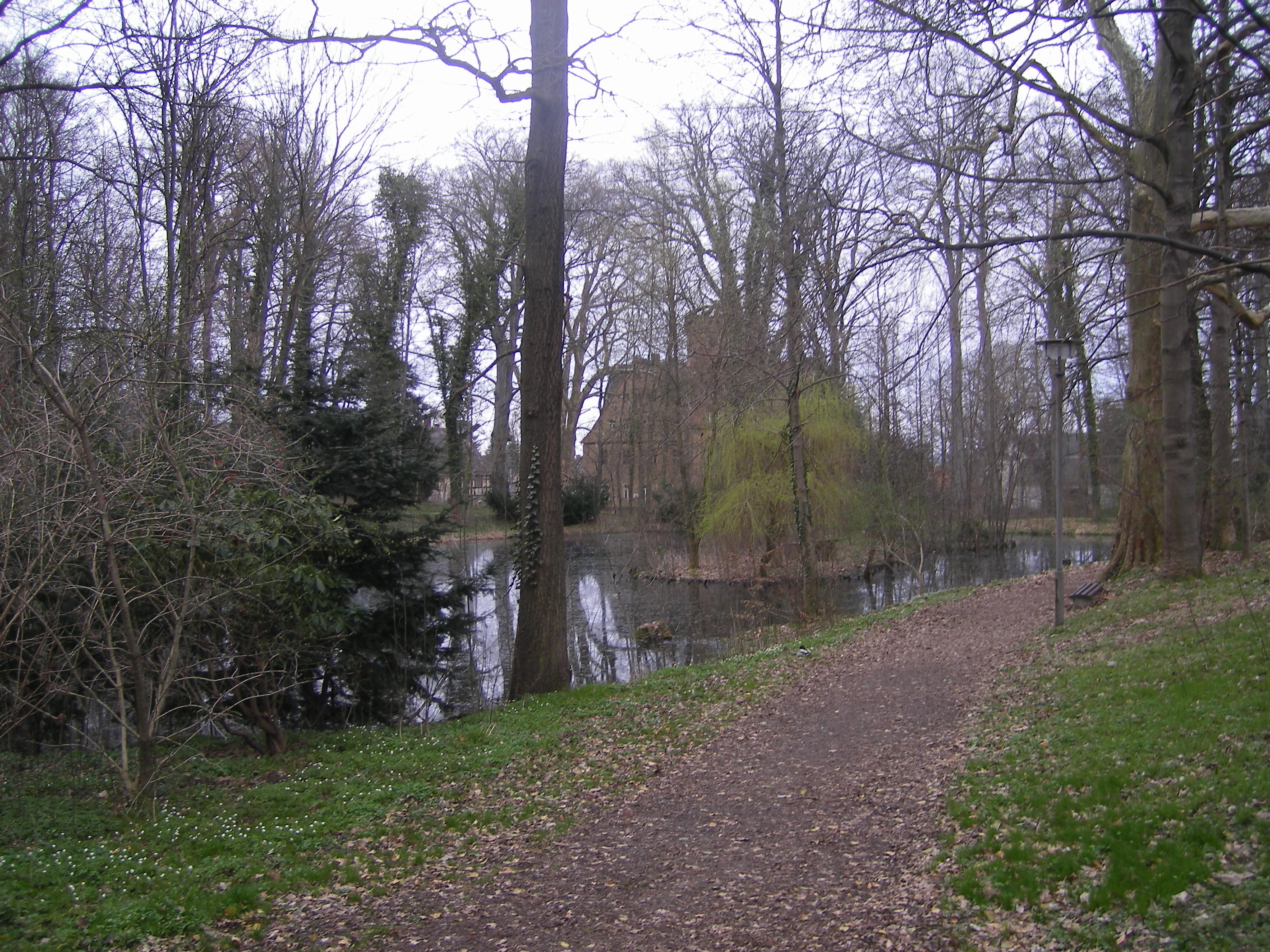 The park in the Altenburger district Poschwitz in Thuringia, Germany.